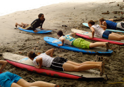 Learning to surf in Costa Rica with Outward Bound